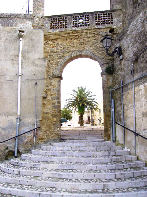 Stairs of the gate